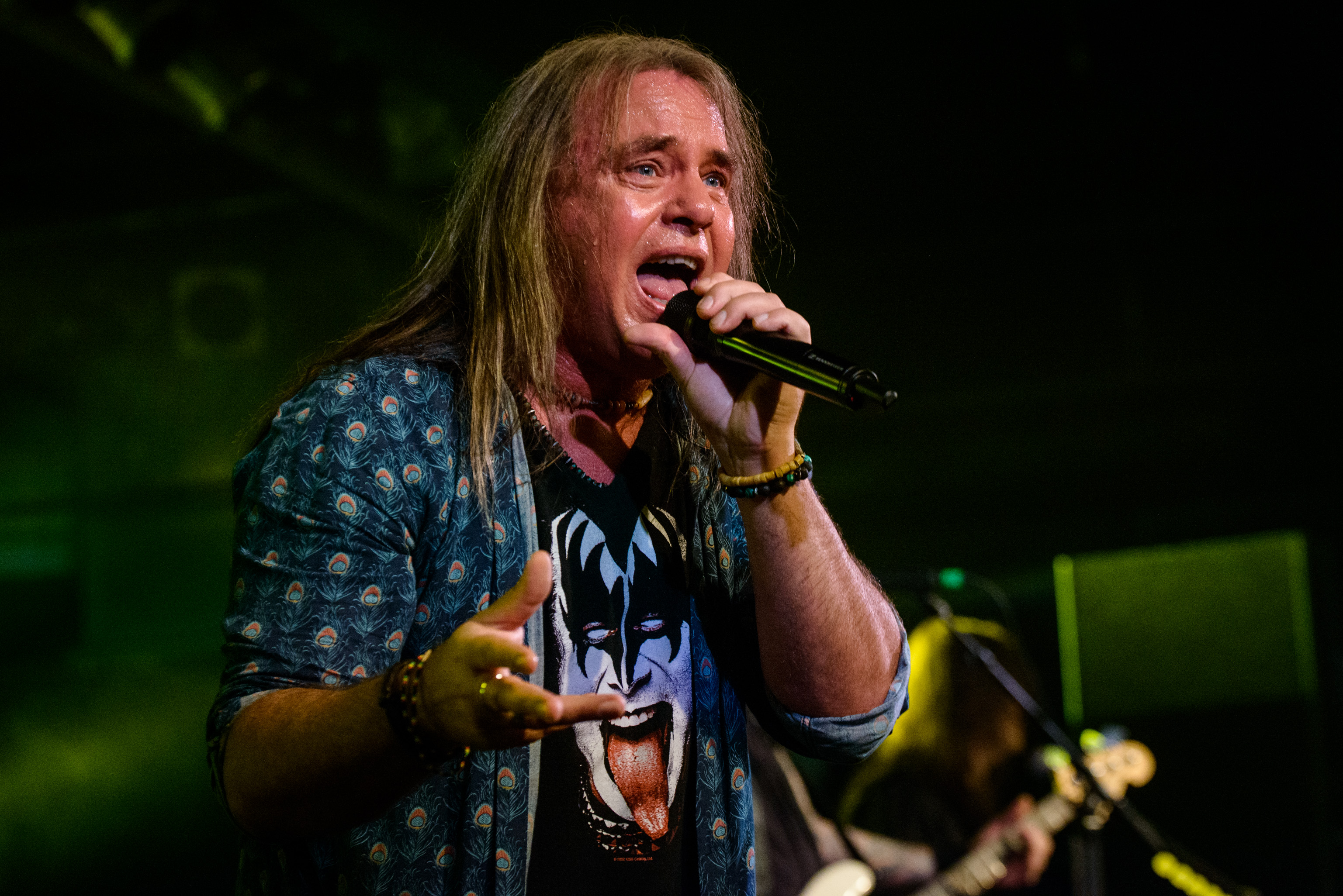 Helloween Live @ Backstage Werk, Munich